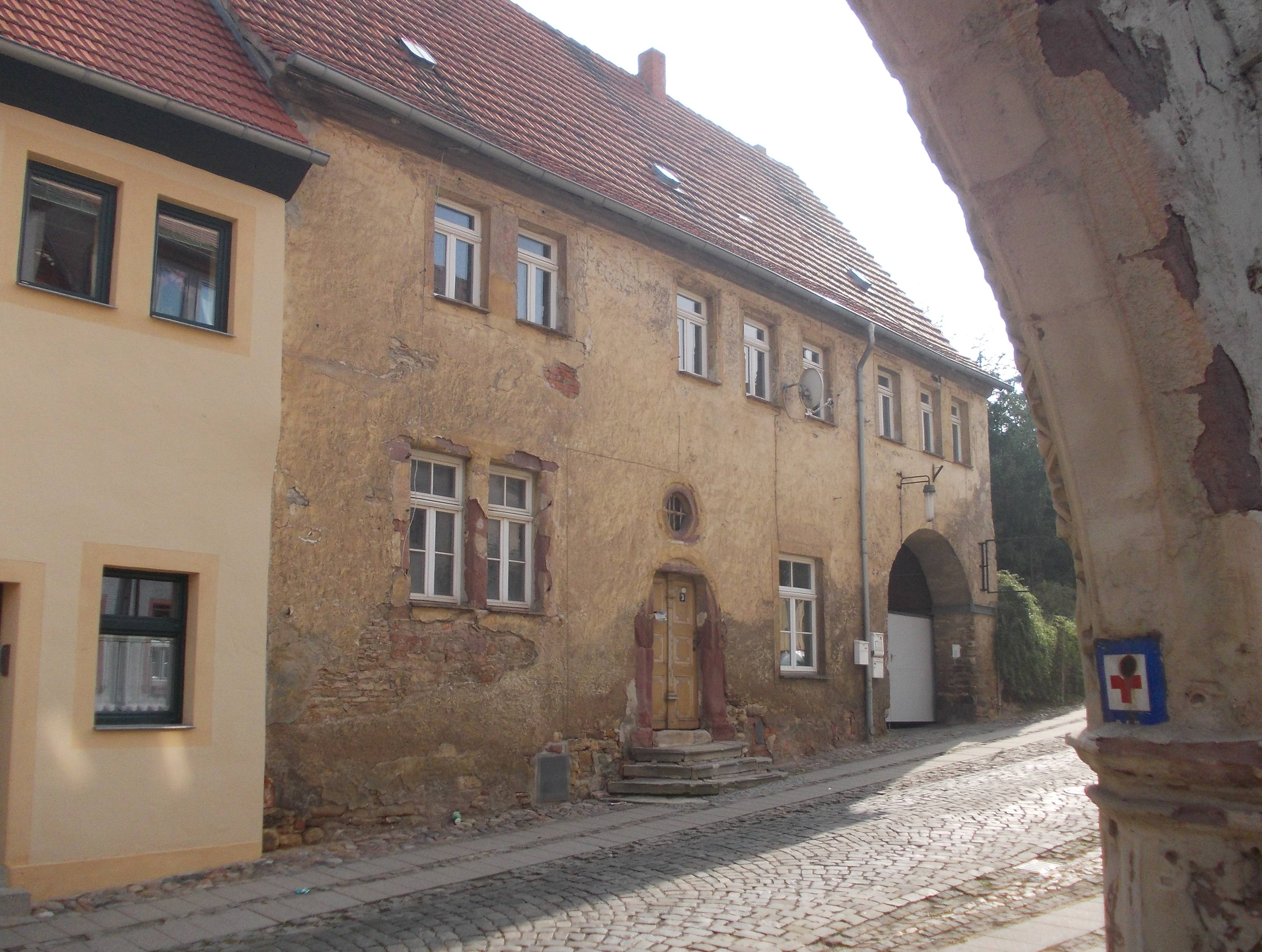 No. 3, An der Trillerei in Sangerhausen (Mansfeld-Südharz district, Saxony-Anhalt)